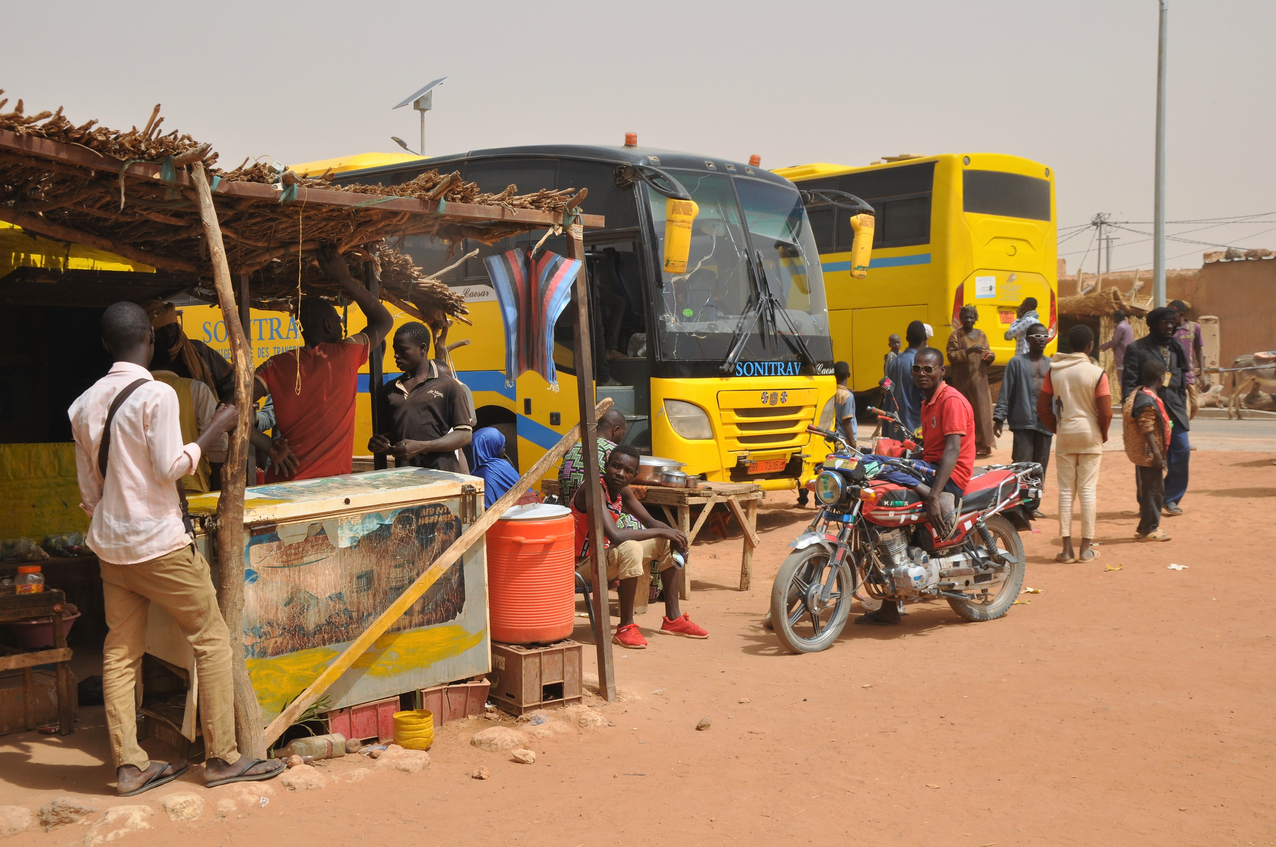 A scene outside the Sonitrav bus station in Filingué (Filingué Department, Tillabéri Region), Niger.